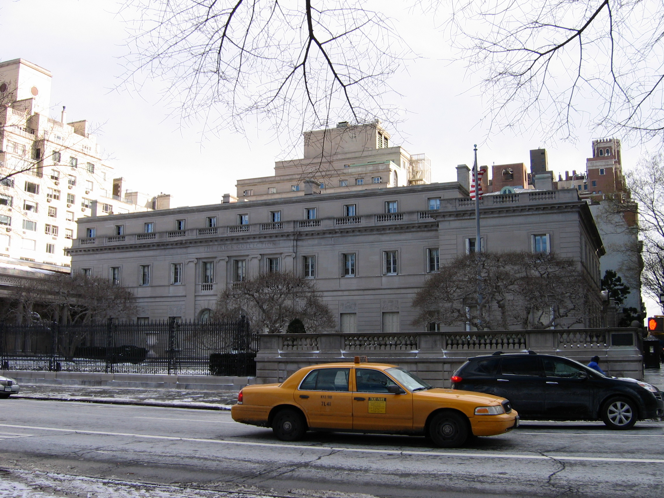 Frick Collection Photo by Kmf164, January 2006.